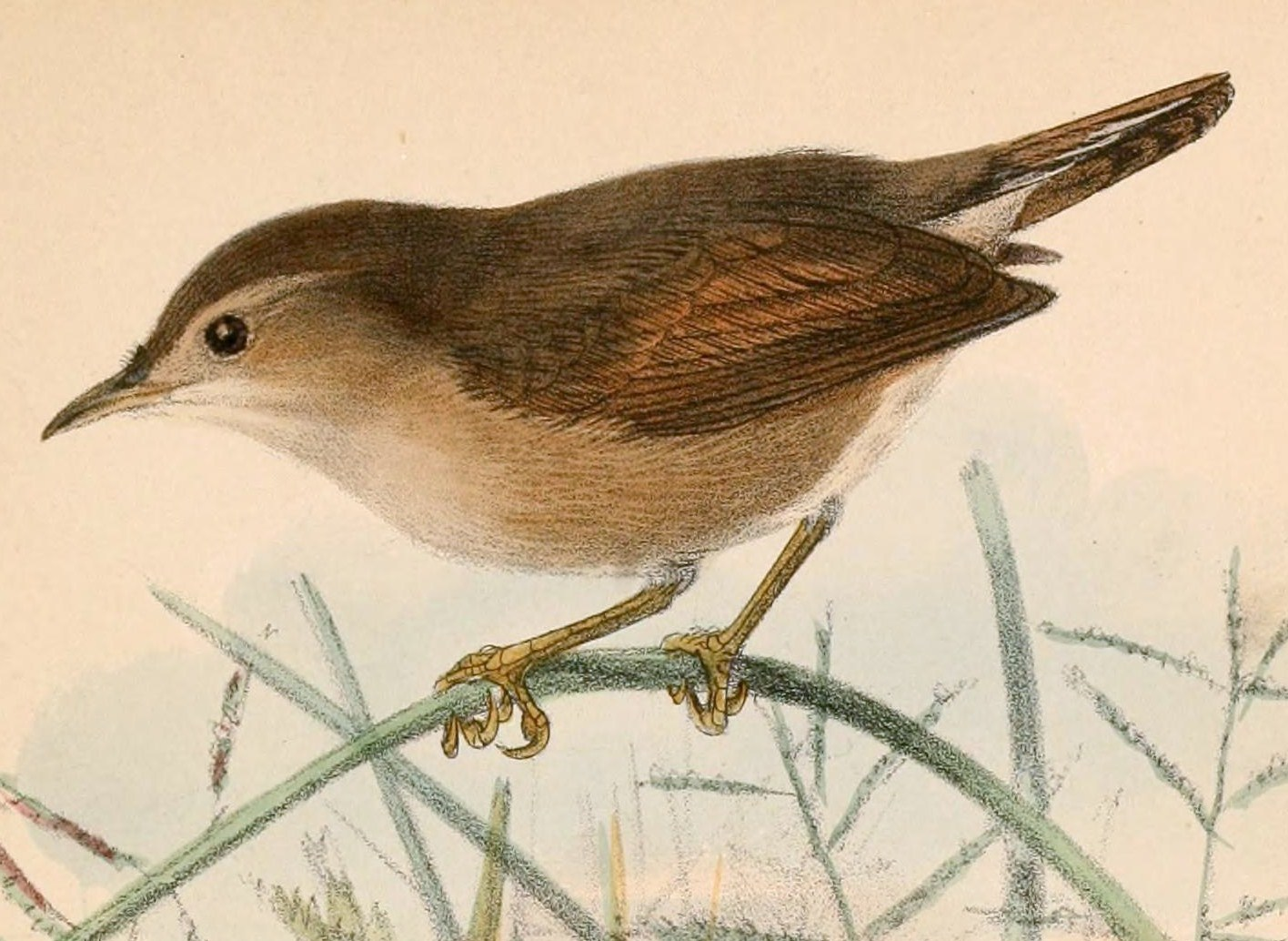 « Drymoeca brachyptera » = Cisticola brachypterus brachypterus (Subspecies of Short-winged Cisticola)